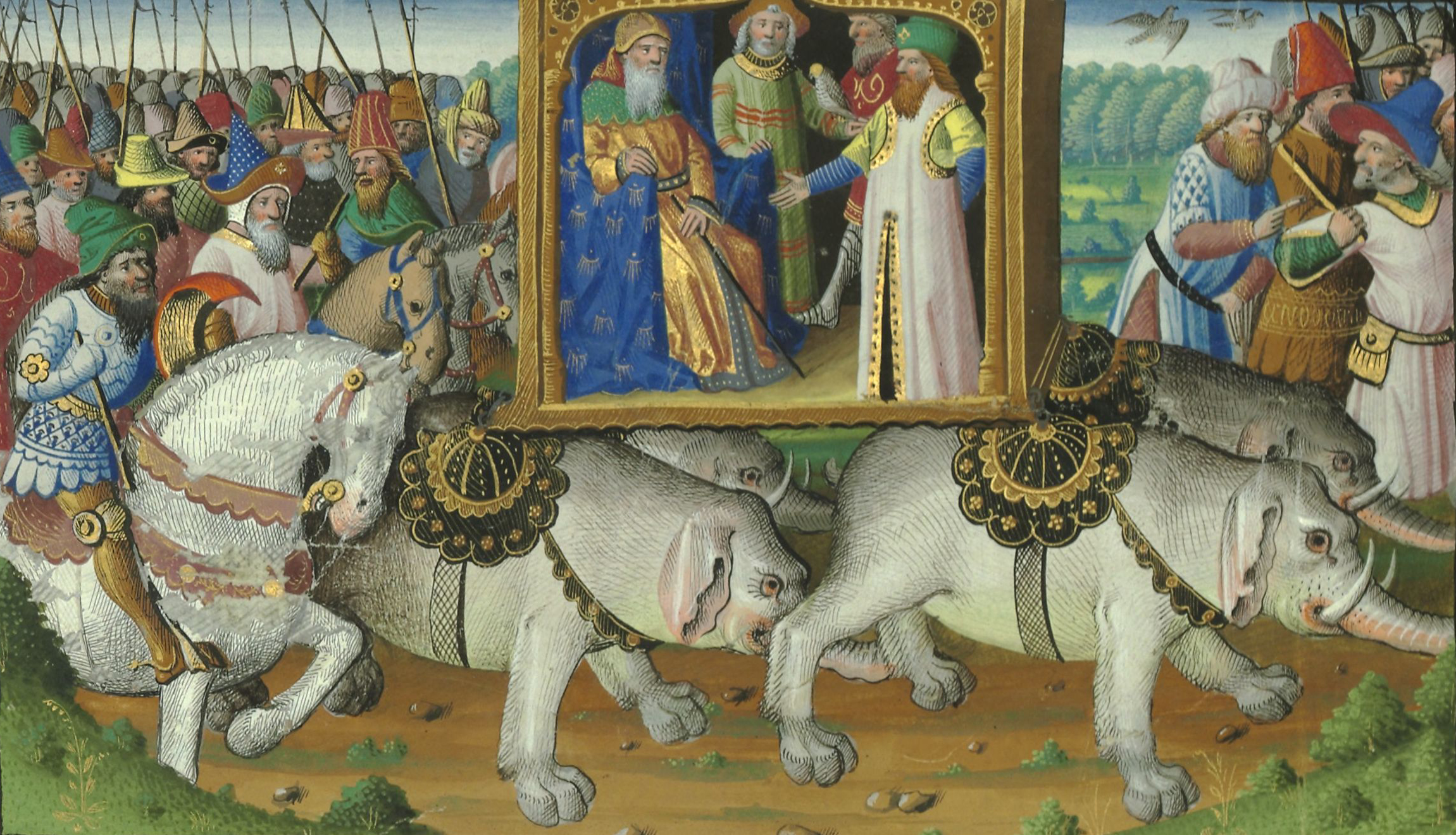 Livre de merveilles, manuscript of Paris, Bibliothèque nationale, fr. 2810, fol. 42v (detail), showing Kubla Khan's hunting. He and others ride a palanquin carried on backs of elephants. Mounted men and falcons present. Rubric (cropped off here) reads "cy dist du royaume de erguiul".[1]